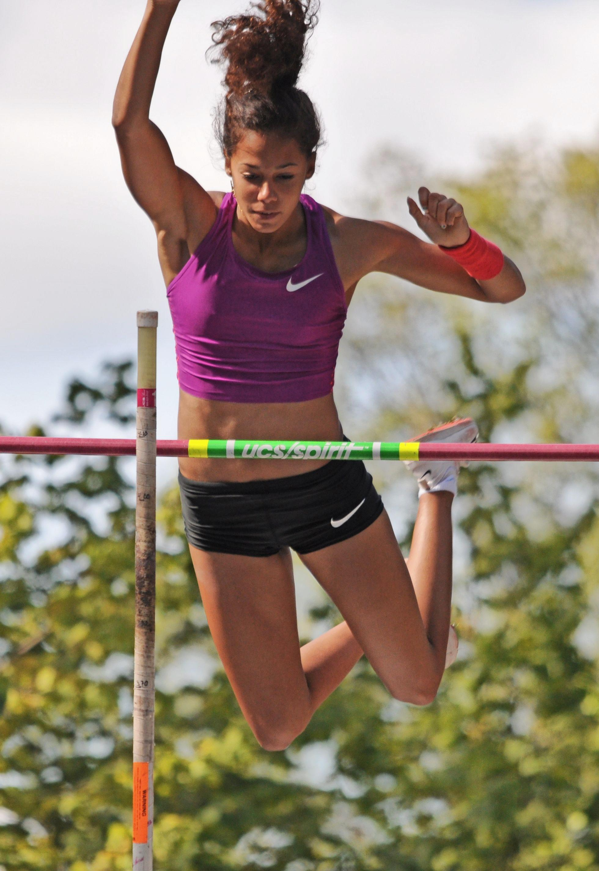 Swedish pole vaulter Angelica Bengtsson jumping in Linnéparken, Växjö september 4th 2010.